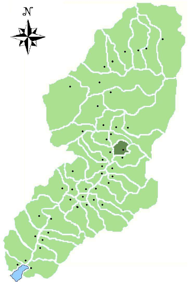 Map of the Comune of Paspardo, Valle Camonica